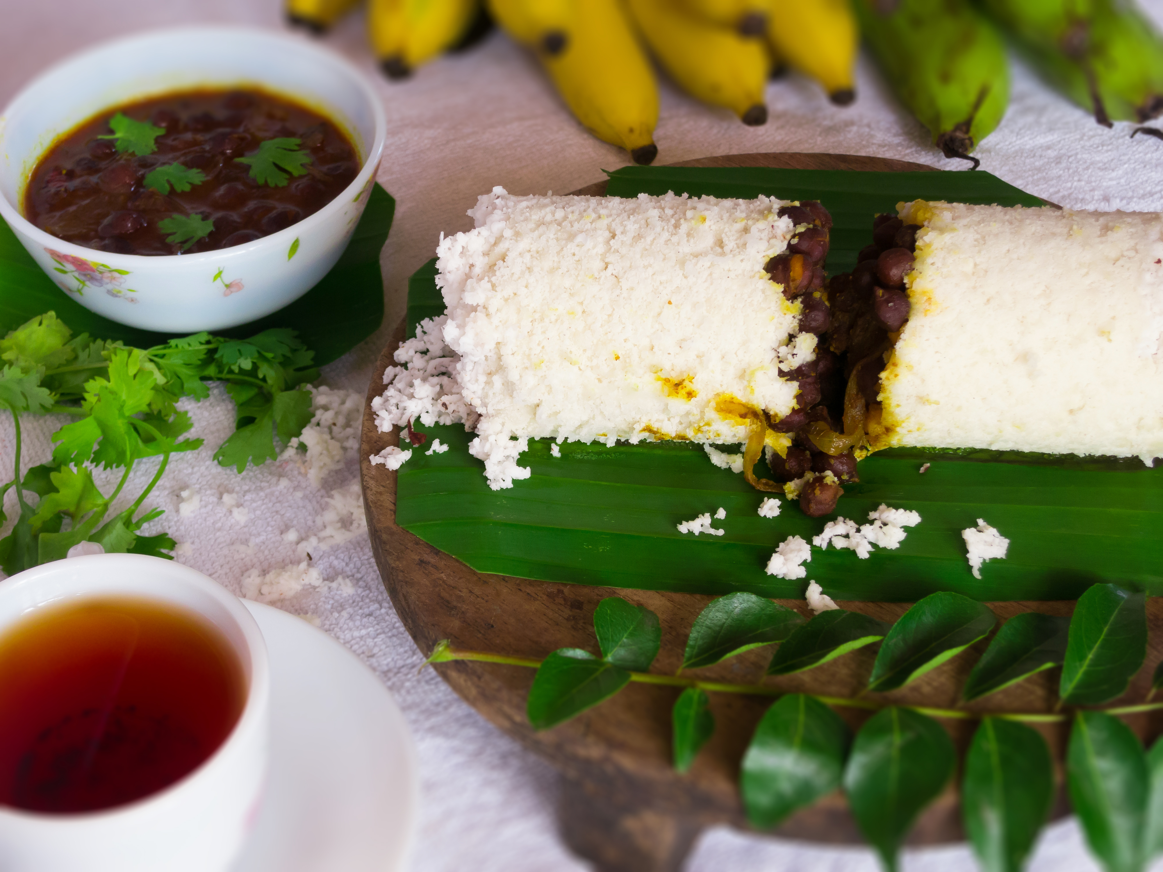 Puttu is a South Indian and Kerala breakfast dish of steamed cylinders of ground rice layered with coconut or vegetables